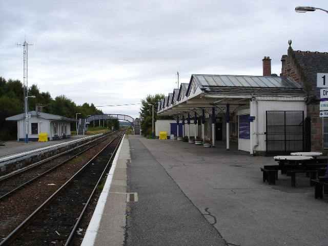 Dingwall railway station, Scotland.